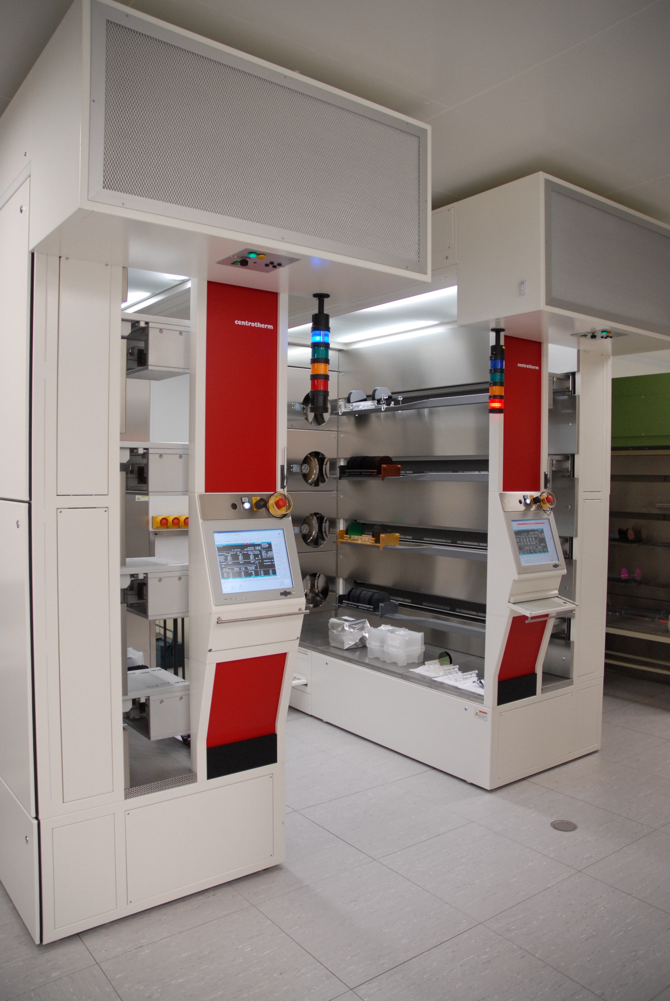 Furnaces used for diffusion and thermal oxidation at LAAS technological facility in Toulouse, France.